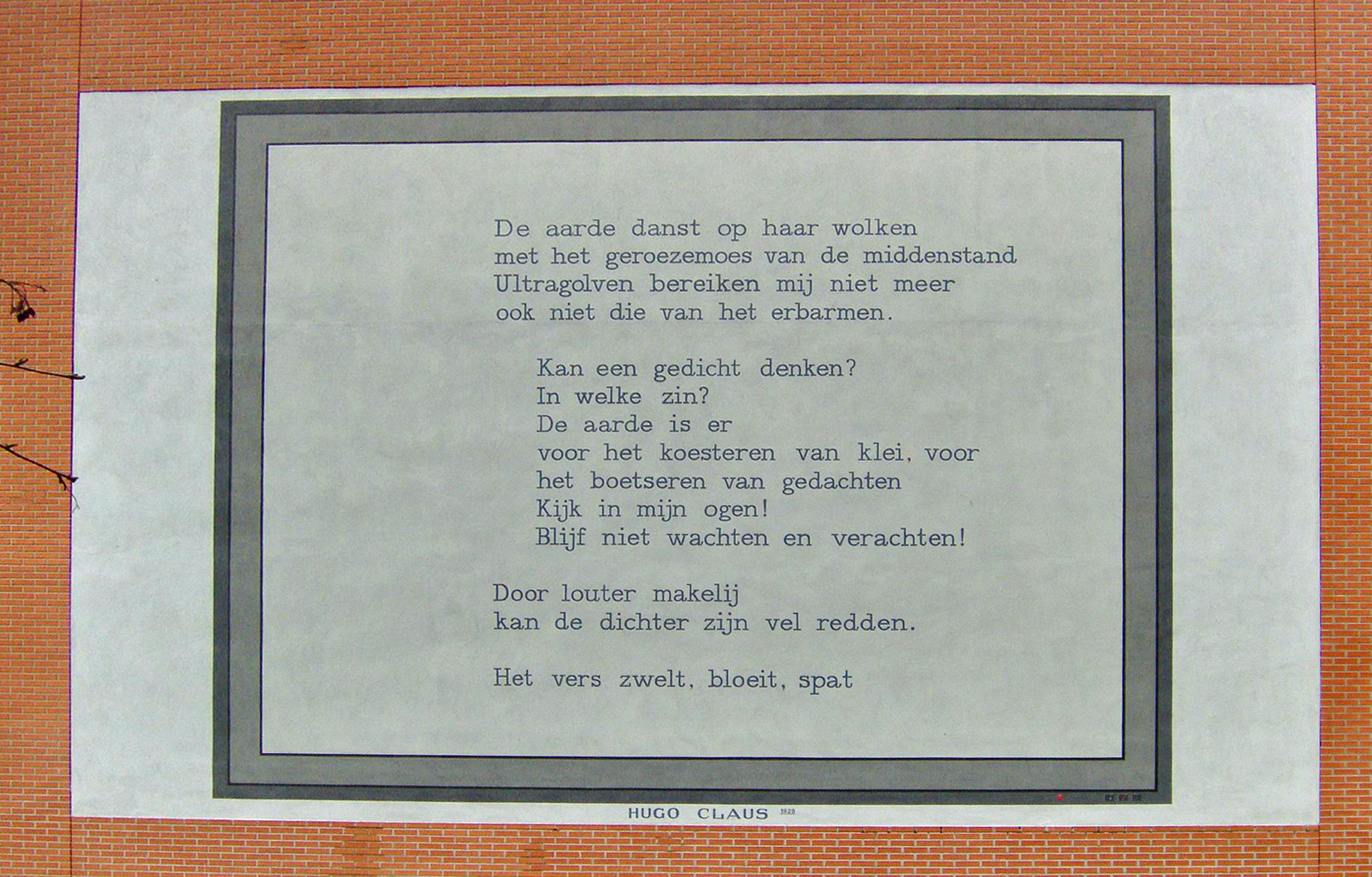 The poem De aarde danst op haar wolken of the Flemish author Hugo Claus on a wall of the building at Geregracht 1, at the corner with the Levendaal in Leiden, The Netherlands